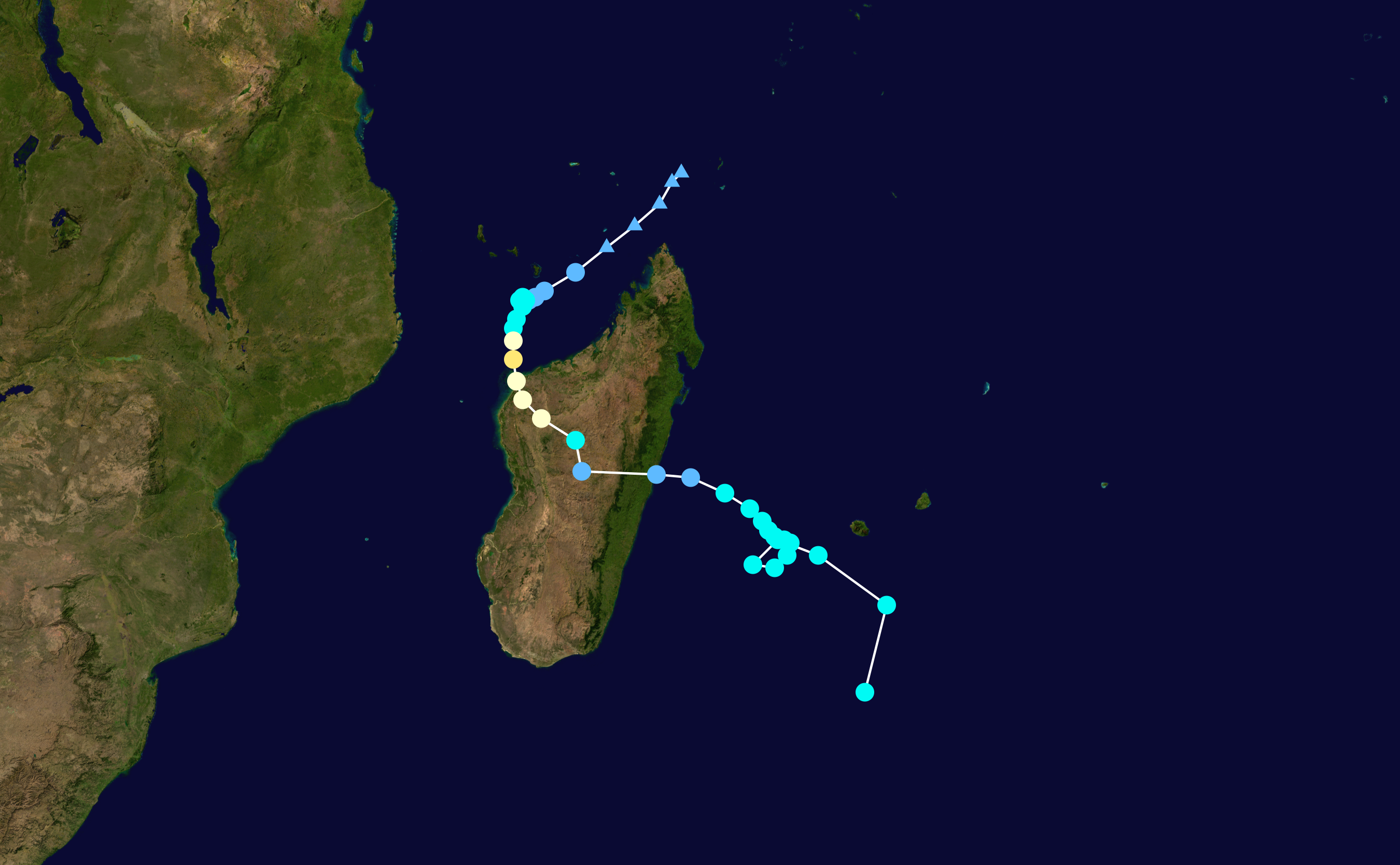 Track map of Tropical Cyclone Fame of the 2007-08 South West Indian Ocean cyclone season. The points show the location of the storm at 6-hour intervals. The colour represents the storm's maximum sustained wind speeds as classified in the Saffir–Simpson scale (see below), and the shape of the data points represent the nature of the storm, according to the legend below. Saffir–Simpson scale Tropical depression≤38 mph≤62 km/h Category 3111–129 mph178–208 km/h Tropical storm39–73 mph63–118 km/h Category 4130–156 mph209–251 km/h Category 174–95 mph119–153 km/h Category 5≥157 mph≥252 km/h Category 296–110 mph154–177 km/h Unknown Storm type Tropical cyclone Subtropical cyclone Extratropical cyclone / Remnant low / Tropical disturbance / Monsoon depression